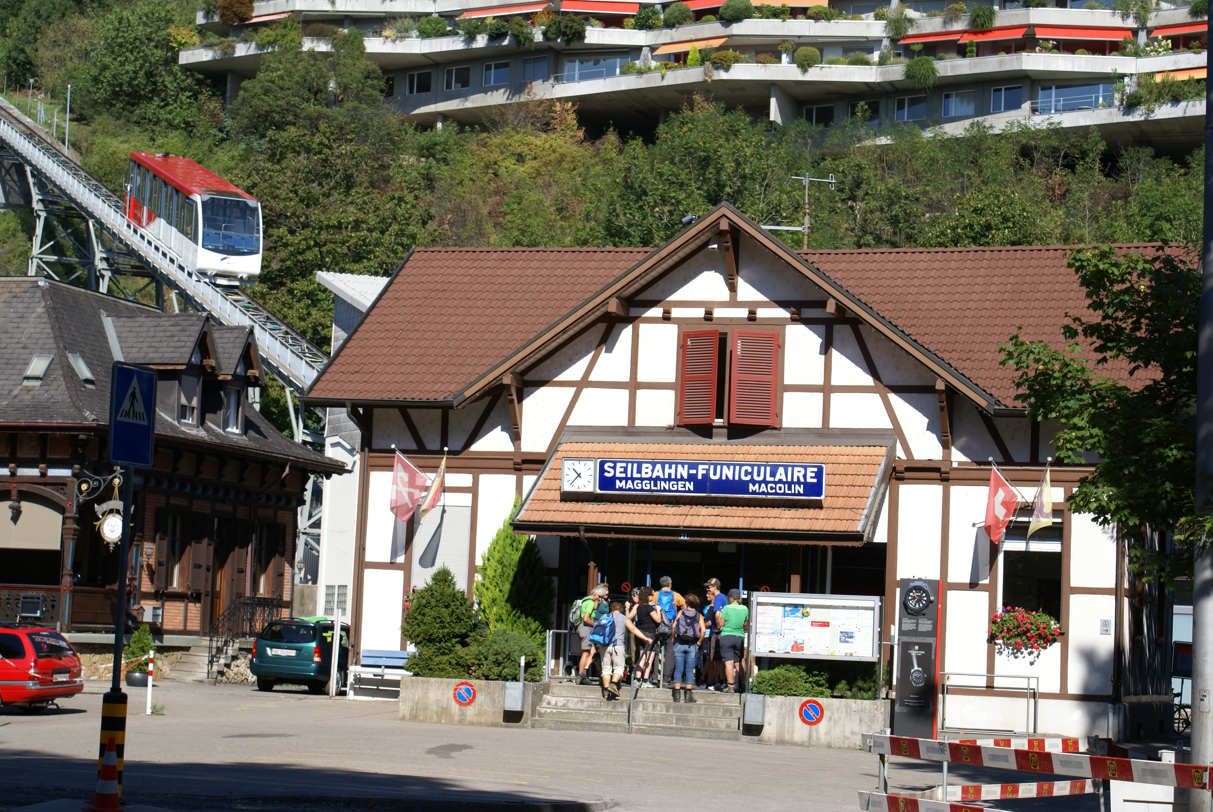 Biel station of the Biel-Magglingen cable-car